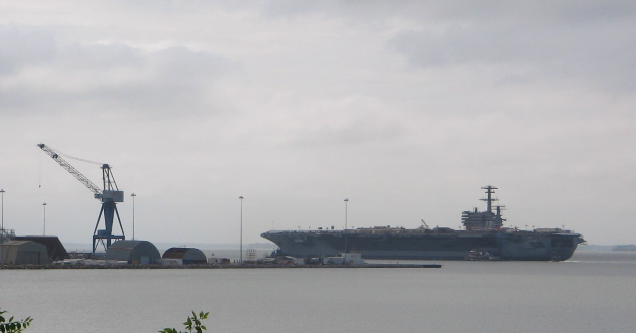 Photograph of the George H.W. Bush aircraft carrier. Photo by Vic Reinhart. The photo was taken October 9, 2006 shortly after the carrier was moved out of dry-dock into the James River for the first time, at the Newport News Northrop Grumman Shipyard. Vic Reinhart has released the photograph according to the license below. Licensing For clarification I am stating that this photo is self-made. Vic Reinhart is the photographer and copyright holder. Astuteoak is Vic Reinhart's screen-name.